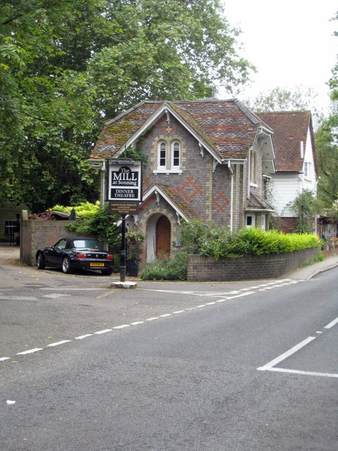 The Mill theatre-restaurant at Sonning Eye, Oxfordshire, England.